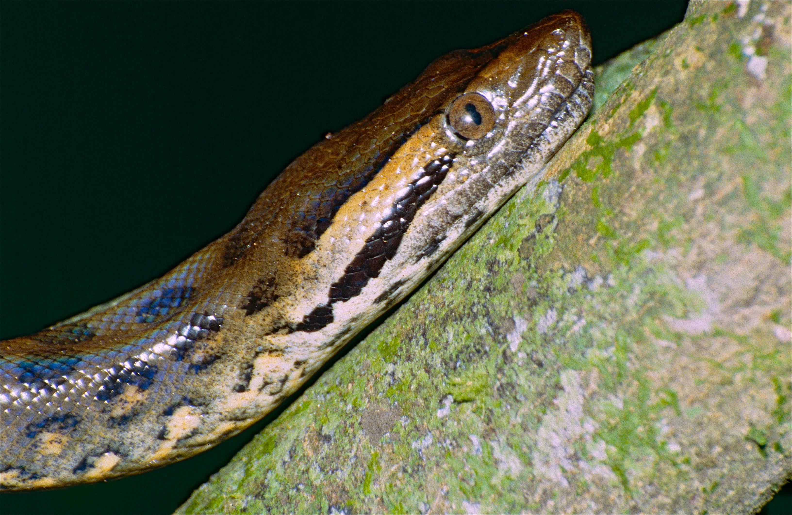 Iracoubo, Guyane, FRANCE Scanned Slide from 1998